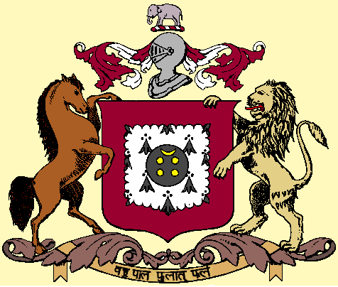 Jind State Coat of Arms; Motto: Bahu Pal Phulat Phalam This work is in the public domain in India because its term of copyright has expired. The Indian Copyright Act applies in India, to works first published in India. According to The Indian Copyright Act, 1957 (Chapter V Section 25), Anonymous works, photographs, cinematographic works, sound recordings, government works, and works of corporate authorship or of international organizations enter the public domain 60 years after the date on which they were first published, counted from the beginning of the following calendar year (ie. as of 2016, works published prior to 1 January 1956 are considered public domain). Posthumous works (other than those above) enter the public domain after 60 years from publication date. Any other kind of work enters the public domain 60 years after the author's death. Text of laws, judicial opinions, and other government reports are free from copyright. Photographs created before 1958 are in the public domain 50 years after creation, as per the Copyright Act 1911. This file may not be in the public domain outside India. The creator and year of publication are essential information and must be provided. See Wikipedia:Public domain and Wikipedia:Copyrights for more details. This image shows a flag, a coat of arms, a seal or some other official insignia. The use of such symbols is restricted in many countries. These restrictions are independent of the copyright status.